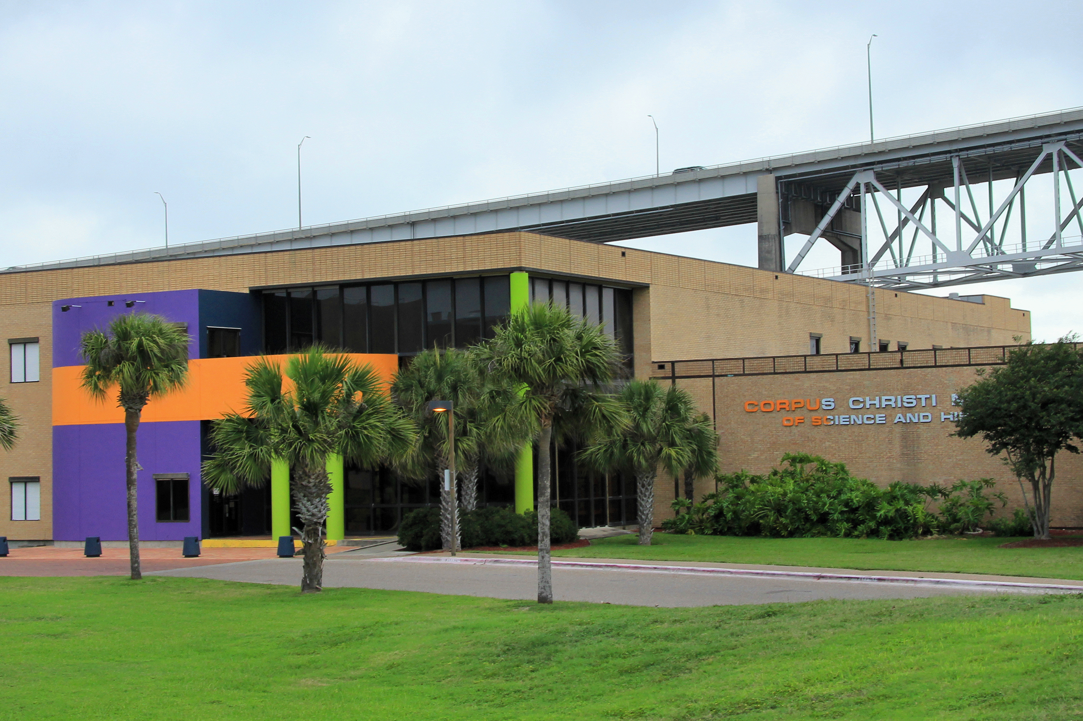 The Corpus Christi Museum of Science and History, Corpus Christi, Texas, United States